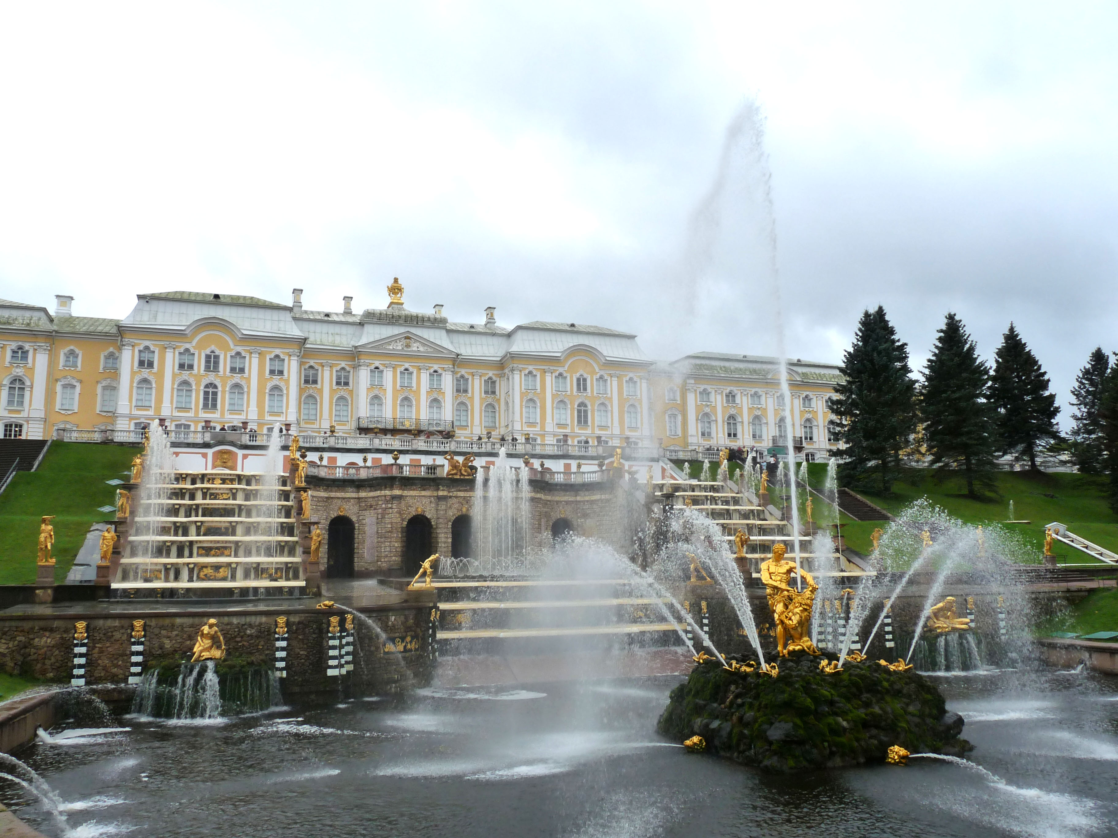 Peterhof 12